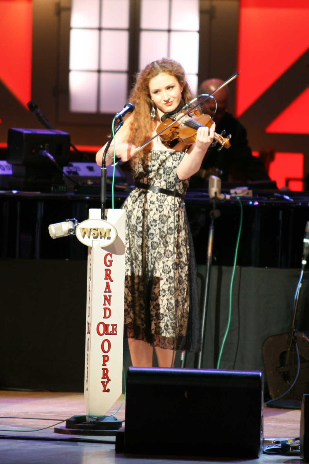 Megan Mullins performing at the Grand Ole Opry in 2007